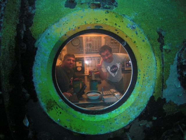 JAXA astronaut/aquanaut Koichi Wakata (right) and Aquarius Reef Base habitat technician Dominic Landucci seen through the main portal of the Aquarius underwater habitat during the NEEMO 10 mission in July 2006. NASA photo jsc2006e30822 in public domain.